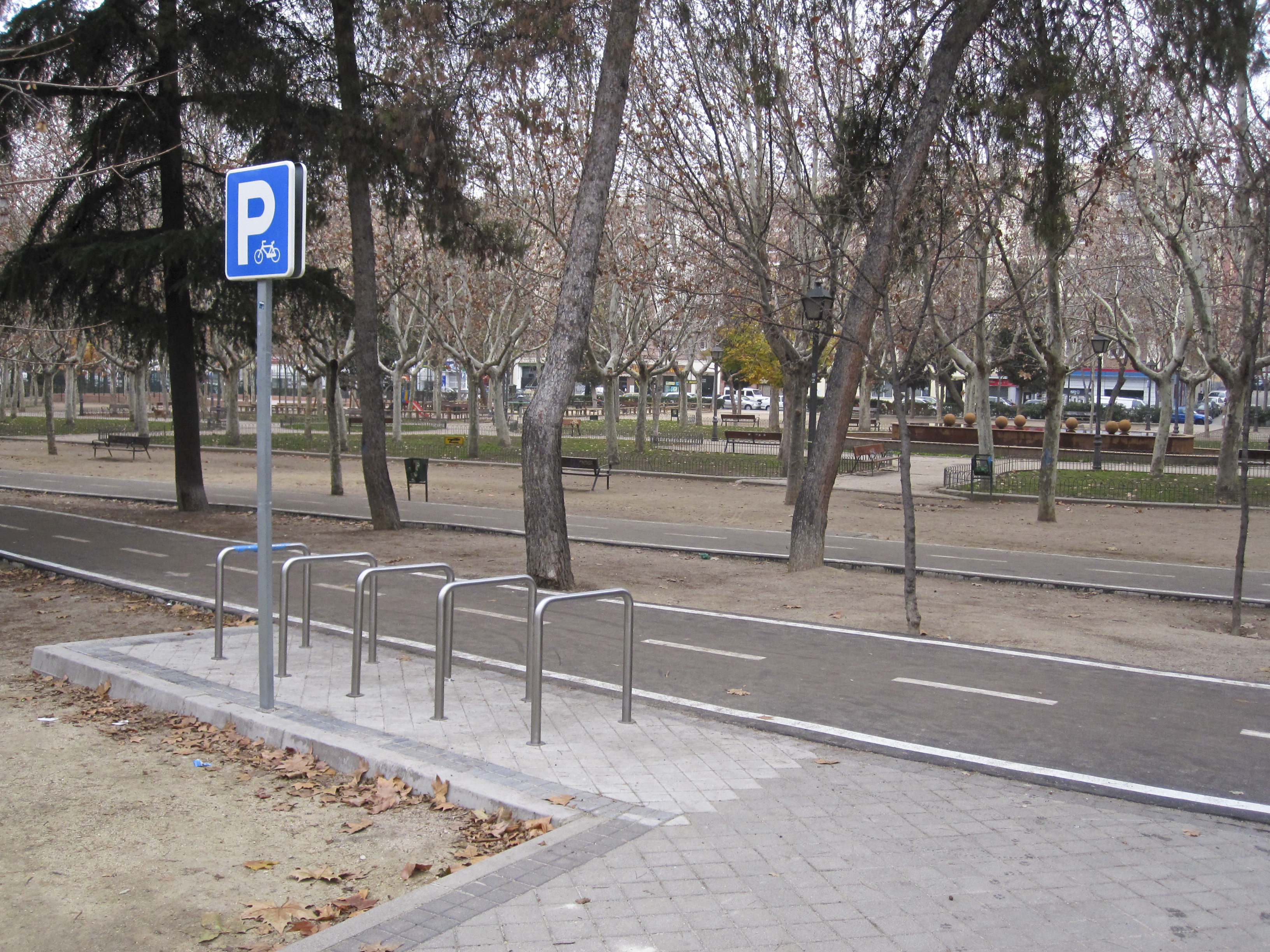 Park "El Calero", barrio Quintana, Ciudad Lineal, Madrid, Spain. A lane for bicycle training is made in the park.